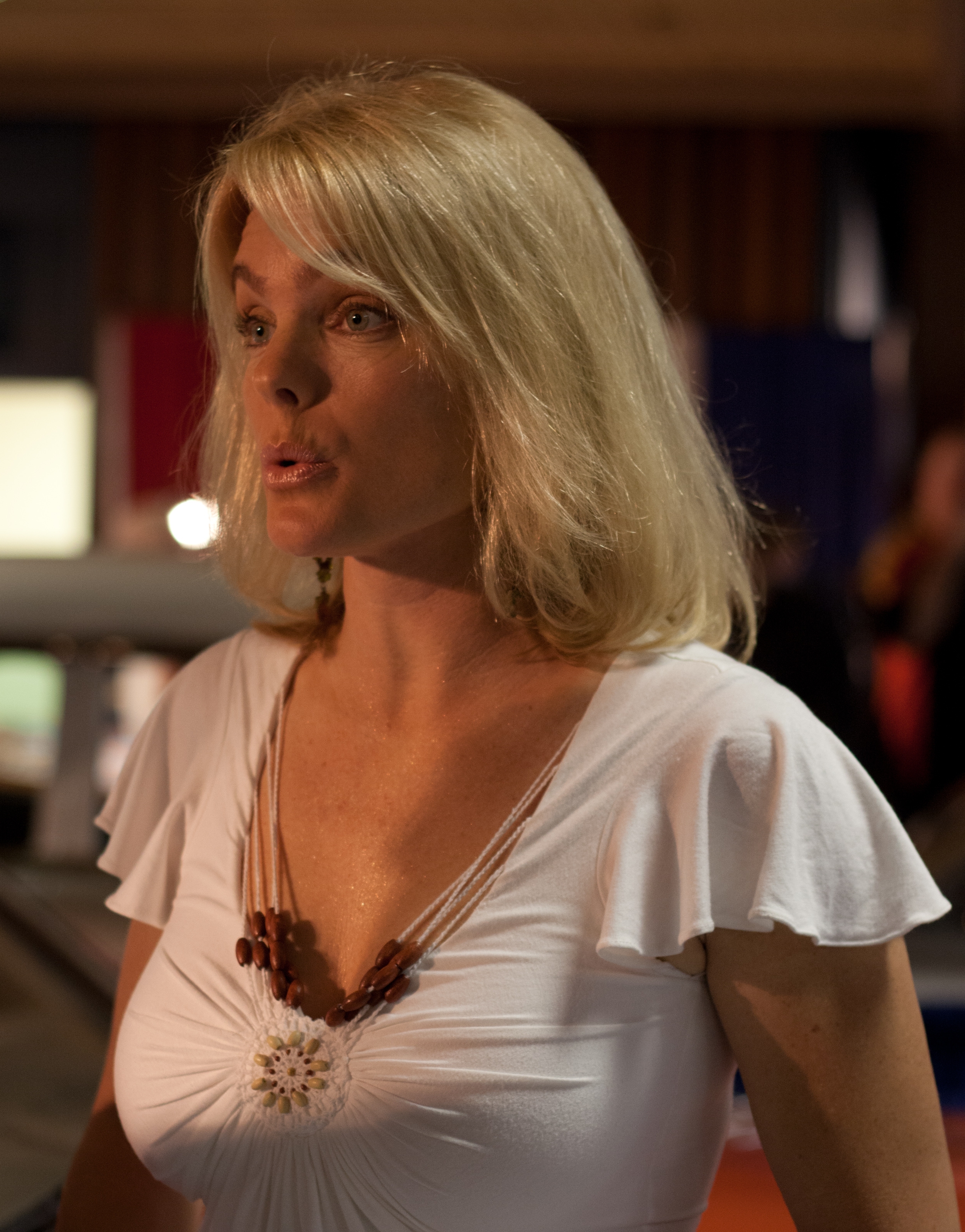 Erika Eleniak from Baywatch, at the 2010 Sacramento Autorama.